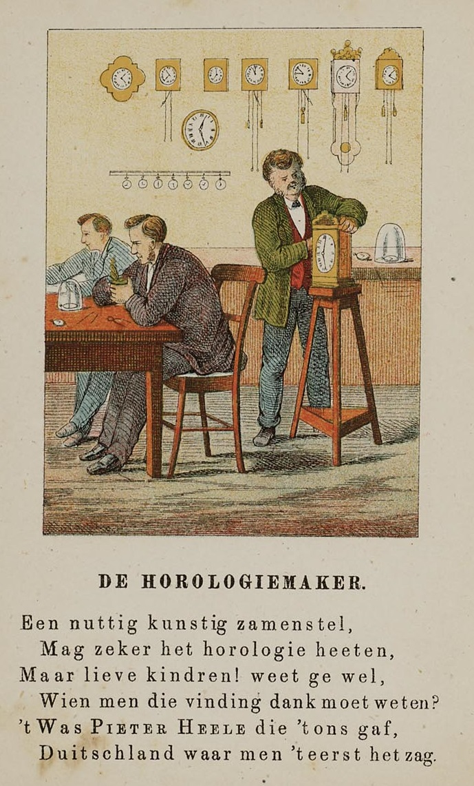 Watchmaker from Nuttige ambachten